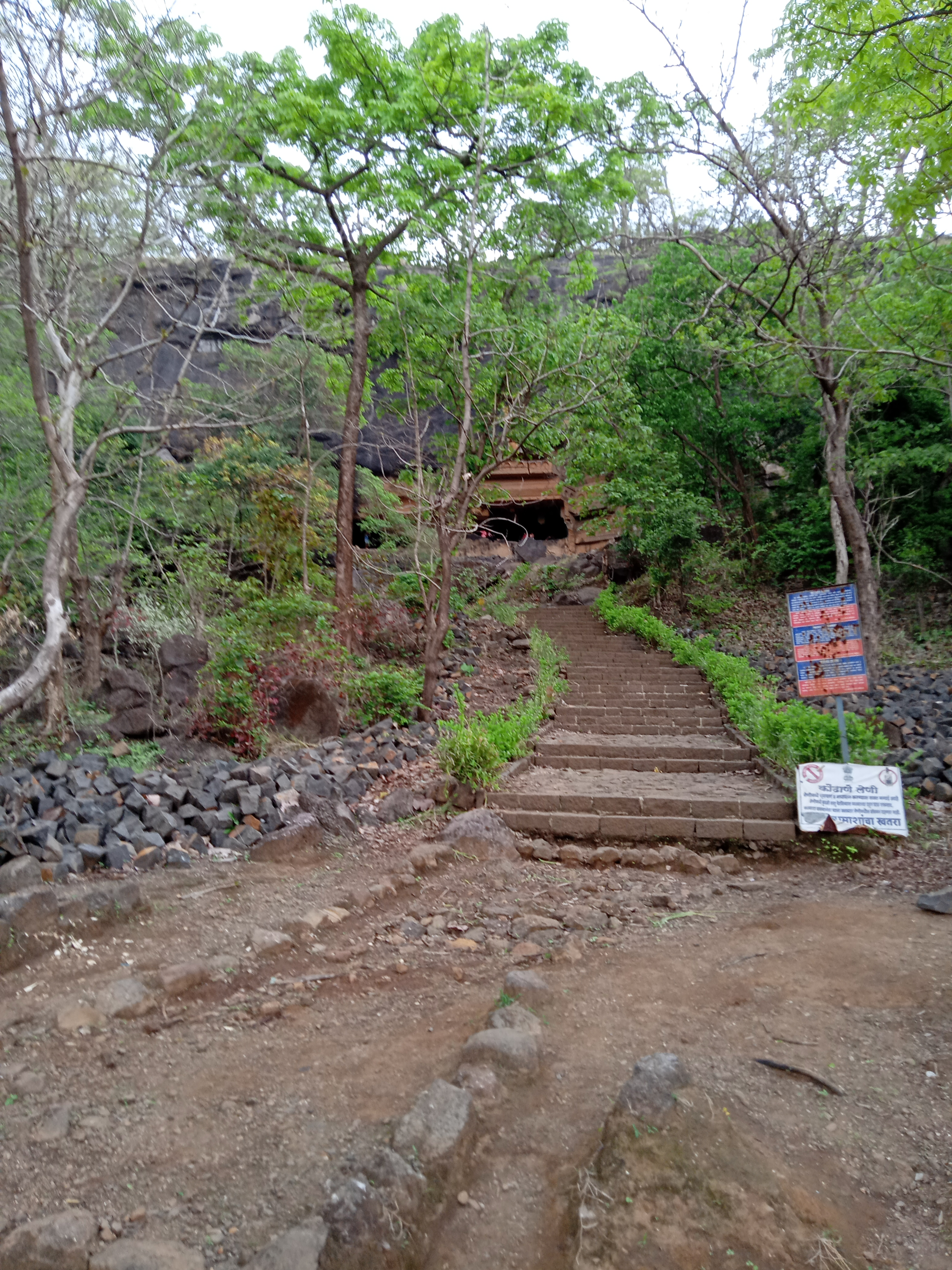 Kondhane Caves Steps